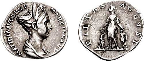 Salonina Matidia, niece of Trajan. Augusta, 112-119. AR Denarius (3.38 gm, 7h). Struck 112. MATIDIA AVG DIVA F MARCIANAE F, draped bust right, wearing double stephane PIETAS AVG, Matidia as Pietas standing, holding hands with Sabina and Matidia Minor. RIC II 759 (Trajan); BMCRE 660 (Trajan); RSC 10.